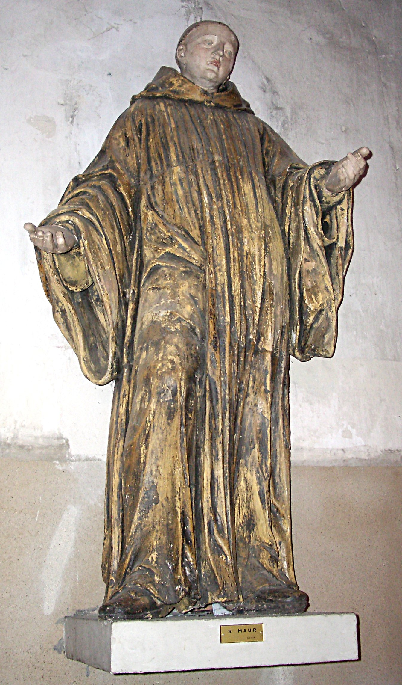 Saint Maur in the Bec Hellouin church